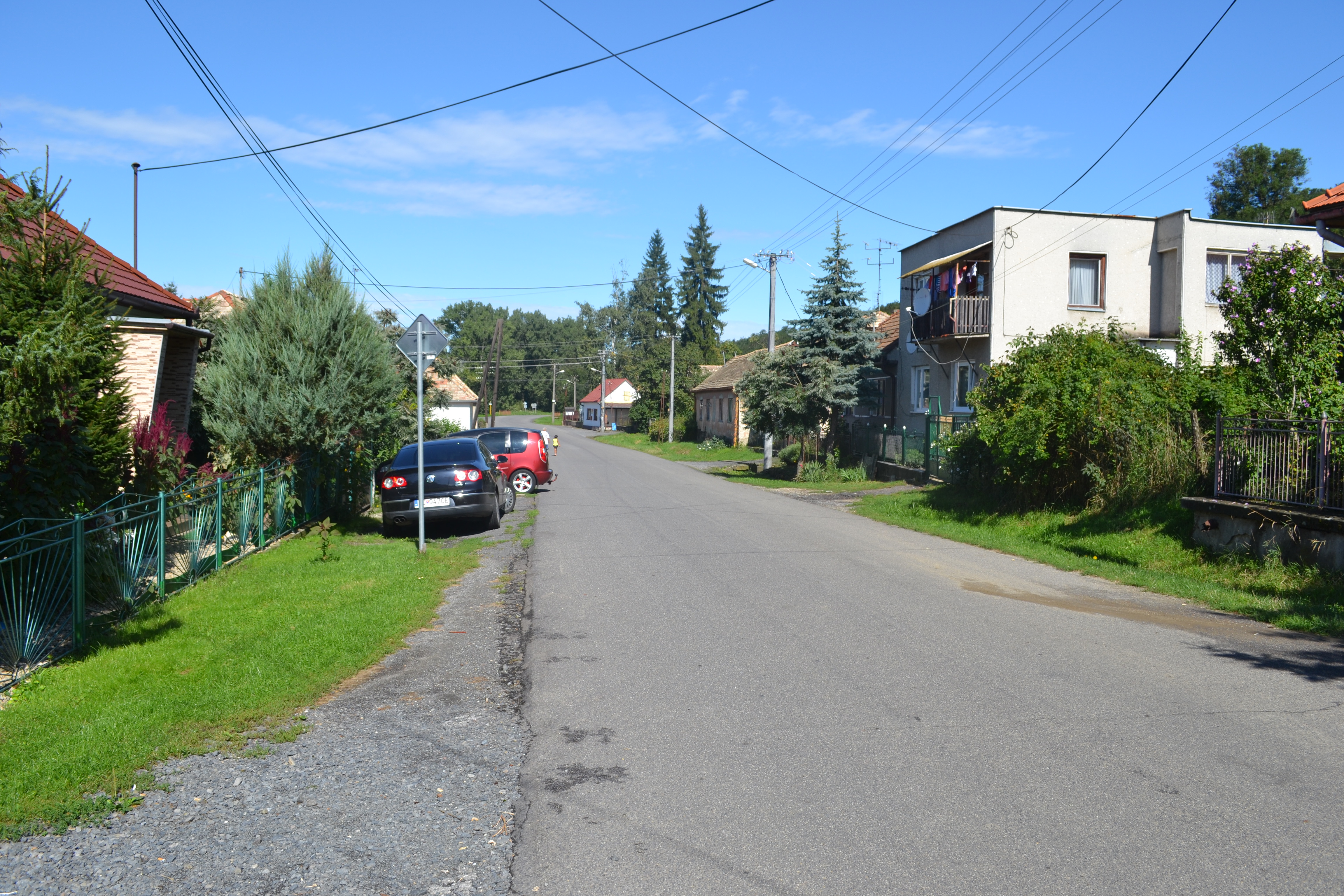 Hlavná (main) street in MučínSlovenčina: Hlavná ulica v Mučíne